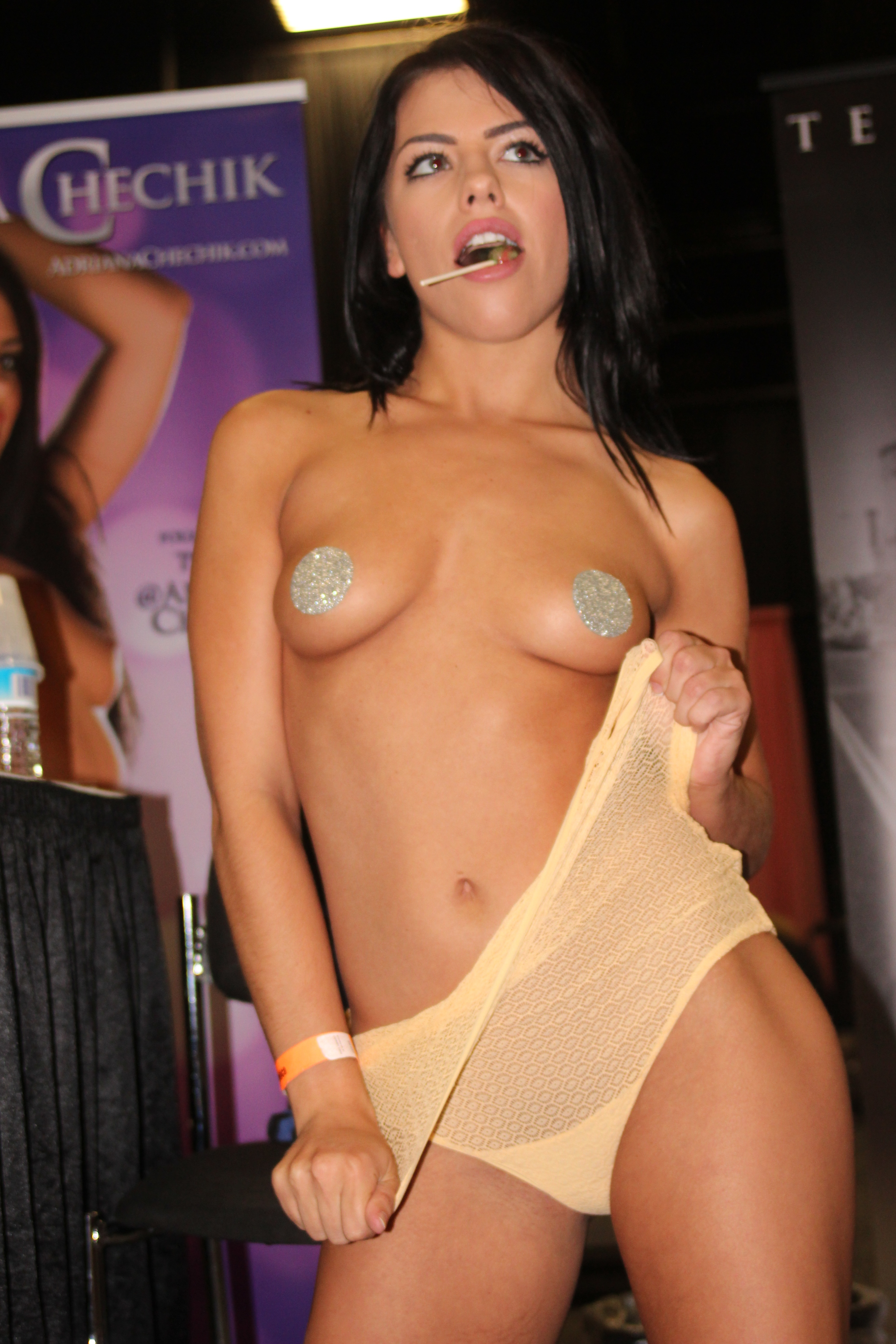 Adriana Chechik at Exxxotica New Jersey on October 6, 2013